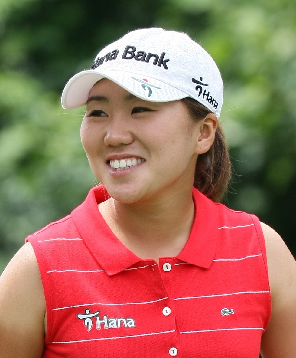 HAVRE DE GRACE, MD - JUNE 09: In-Kyung Kim (KOR) during Pro-Am before 2009 LPGA Championship held at Bulle Rock Golf Course, on June 9, 2009 in Havre de Grace, Maryland. (Photo by Keith Allison)